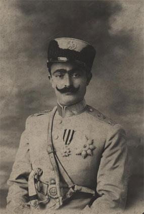 General Amir Ahmadi. Sepahbod Ahmad Amir-Ahmadi (1884 - 1974) was a military leader and cabinet Minister of Iran.